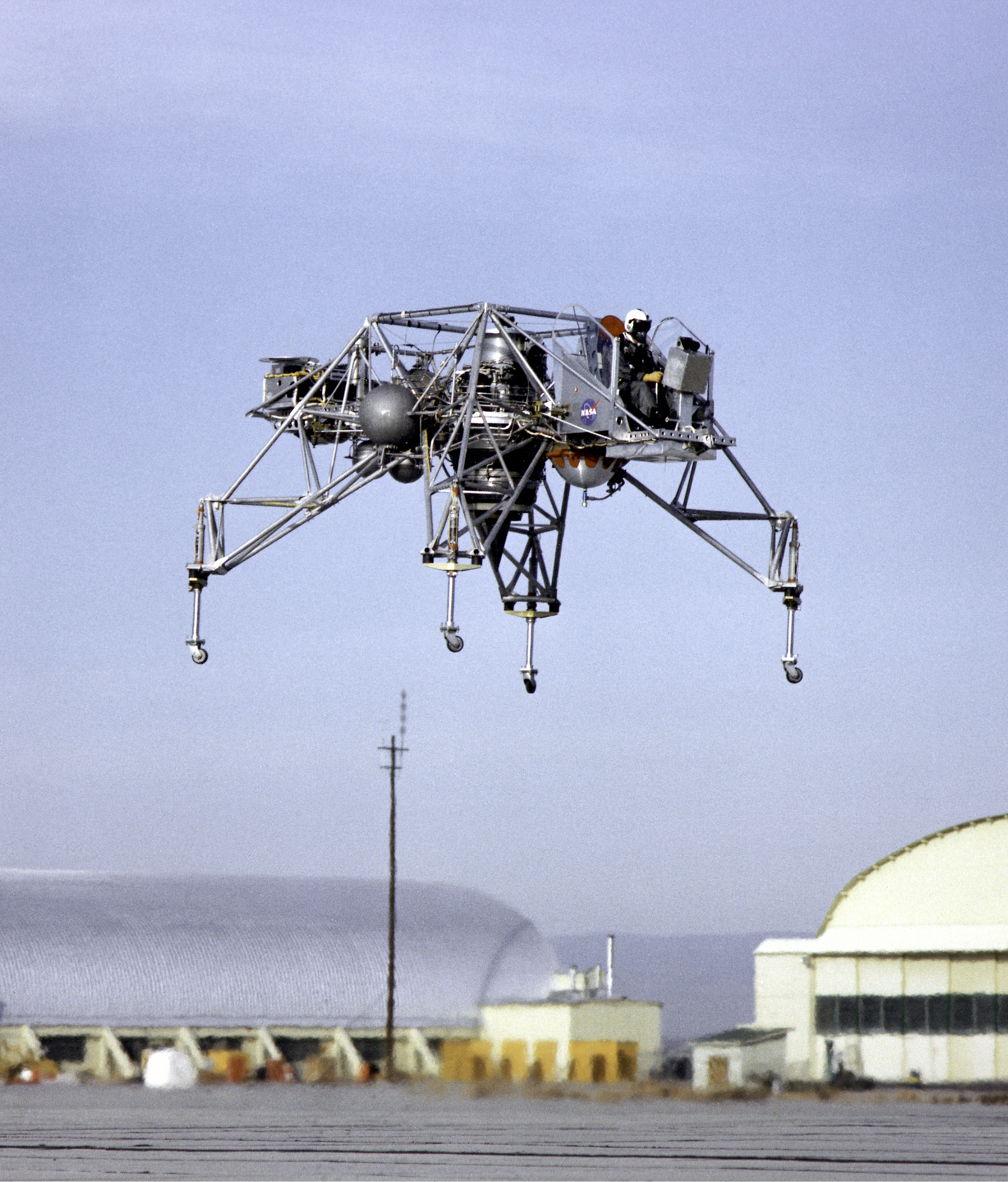 This 1964 NASA Flight Reserch Center photograph shows the Lunar Landing Research Vehicle (LLRV) Number 1 in flight at the South Base of Edwards Air Force Base. When Apollo planning was underway in 1960, NASA was looking for a simulator to profile the descent to the moon's surface. Three concepts emerged: an electronic simulator, a tethered device, and the ambitious Dryden contribution, a free-flying vehicle. All three became serious projects, but eventually the NASA Flight Research Center's (FRC) Landing Research Vehicle became the most important.